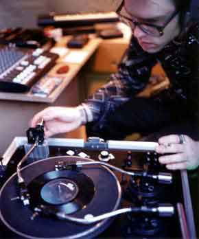 World Premier of the Tri-Phonic Truntable 14th July 1997, London.